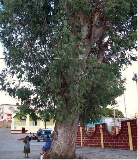 The old giant.